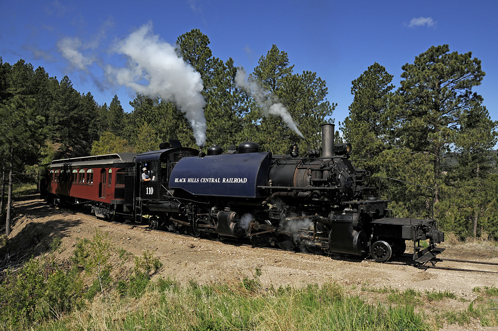 Black Hills Central Baldwin Mallet #110 a 2-6-6-2 June4th 2013. Built by The Baldwin Locomotive Works in 1928 for the Weyerhaeuser Timber Company of Vail, WA. Its next owner was The Rayonier Lumber Company where it received a tender from Rayonier #101 and was retired in 1968. This engine was later displayed at the Wasatch Mountain Railway in Heber City, Utah, and then sold to the Nevada State Railway Museum. The 110 was sold to The Black Hills Central Railroad in 1999, and was trucked from Nevada to South Dakota on four semi-trailers. Restoration on this engine by the mechanical crew of the BHC was completed in the spring of 2001. It is the only 2-6-6-2T Mallet in service in the world.Source